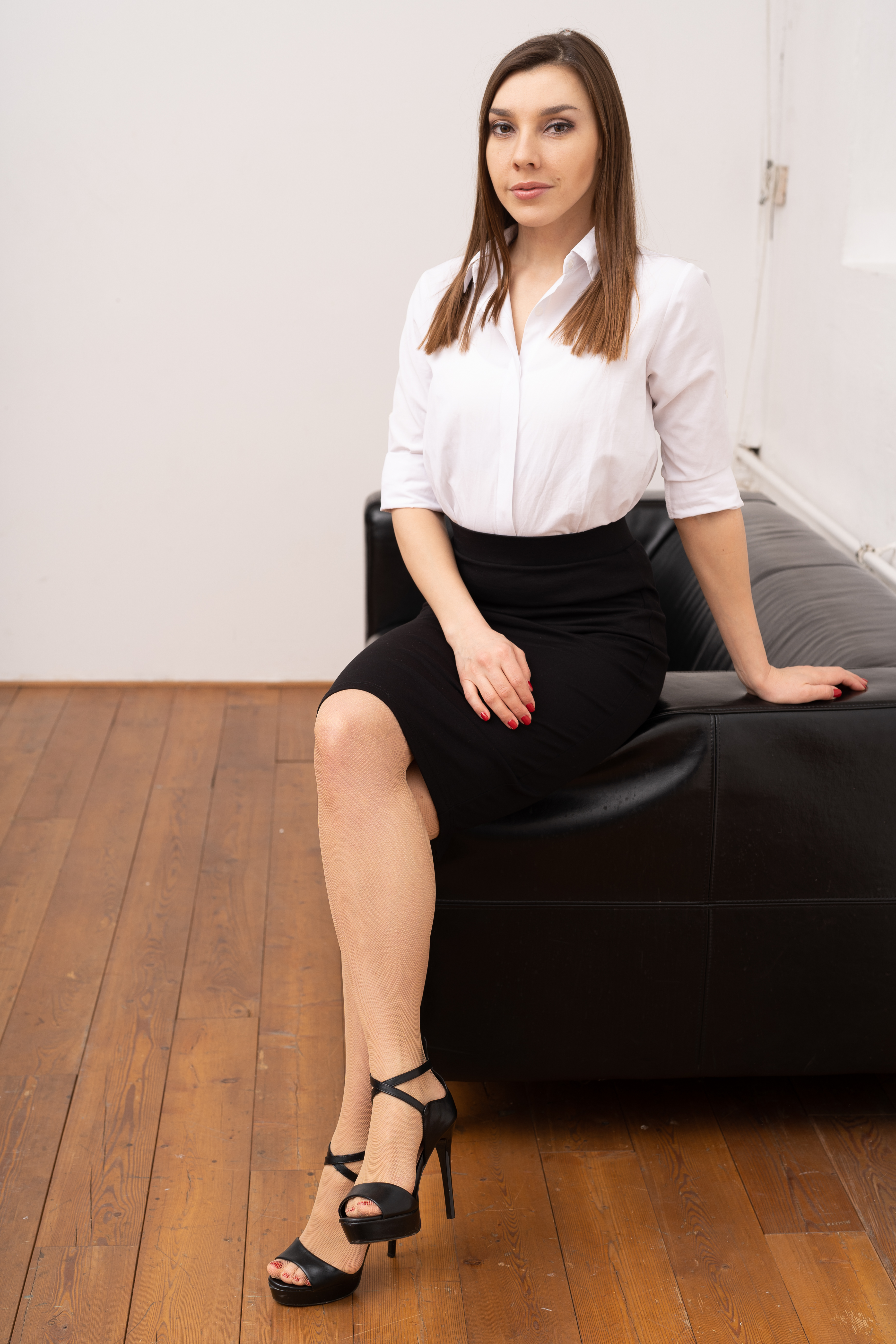 Slightly business casual Informal wear. Pose 2 with fishnet tights.